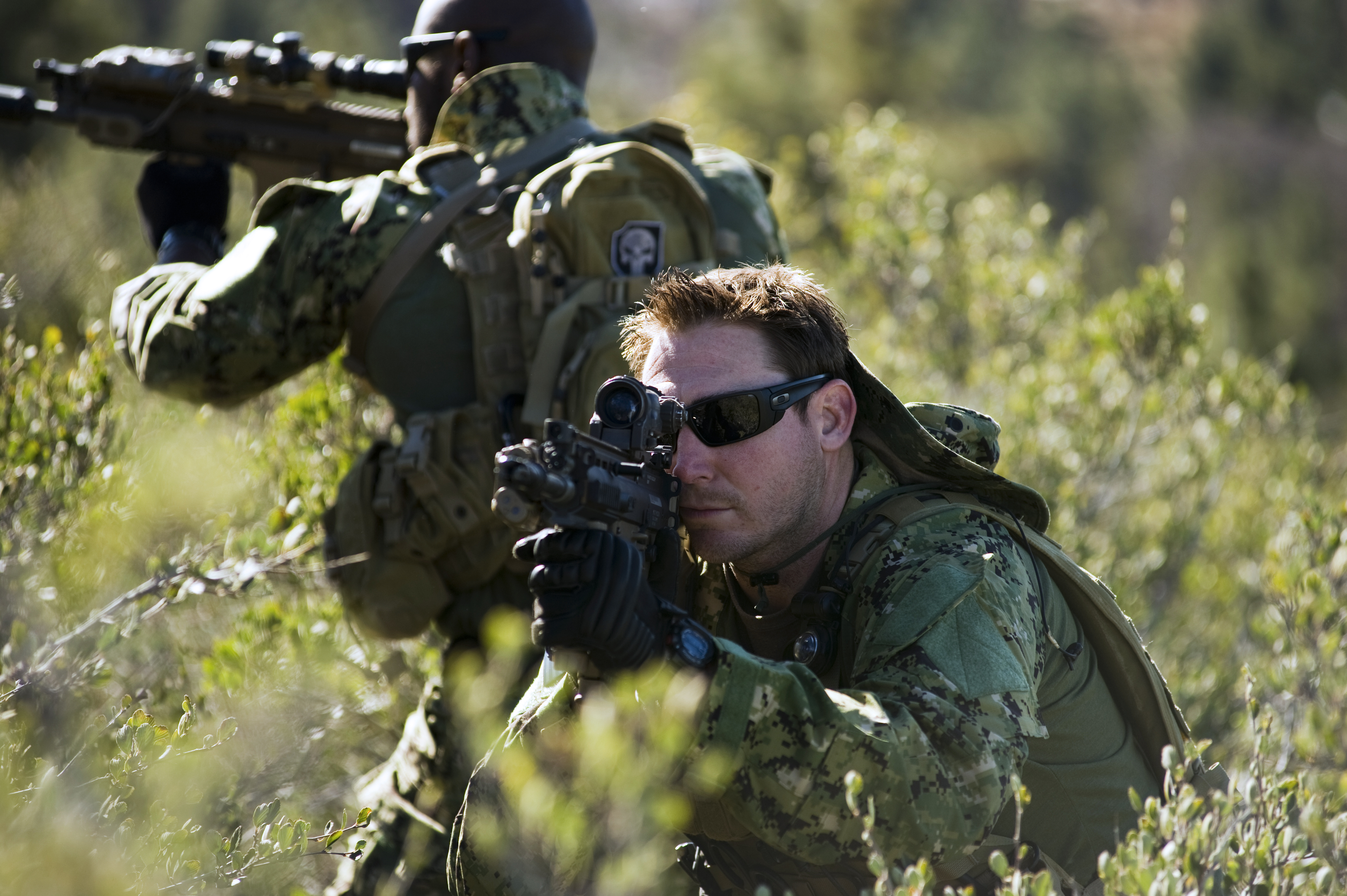 120109-N-OT964- California (09 Jan. 2012) Navy SEALs conduct training on land and in water. U.S. Navy photo by Mass Communication Specialist 2nd Class Martin L. Carey